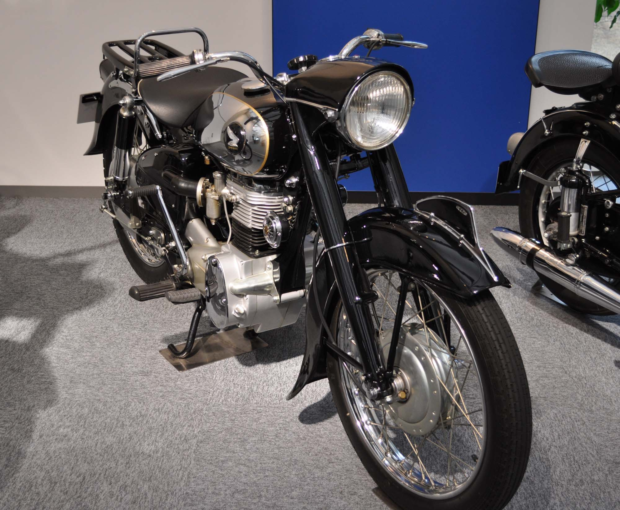 Honda Dream SA (1955)